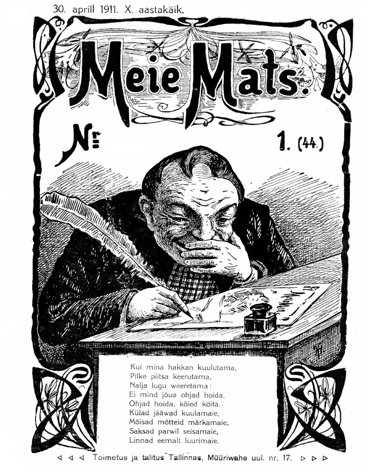 Meie Mats number one